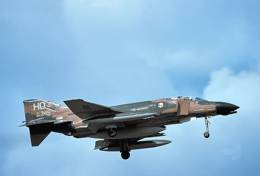 McDonnell F-4D-31-MC Phantom 66-7745 8th Tactical Fighter Squadron, 49th Tactical Fighter Wing, photo taken at Ramstein Air Base, West Germany 7745 (c/n 2381) noted Mar 2006 at Dannelly Field ANG Collection, Montgomery, AL